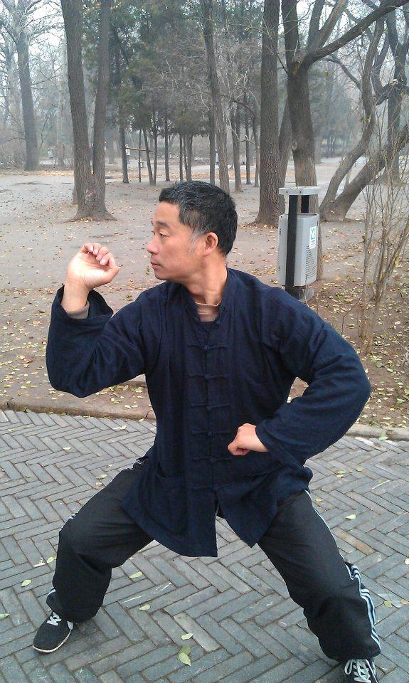 A picture of master Zhou Jingxuan, holding a Baji Quan posture. 2012, Tianjin, China.